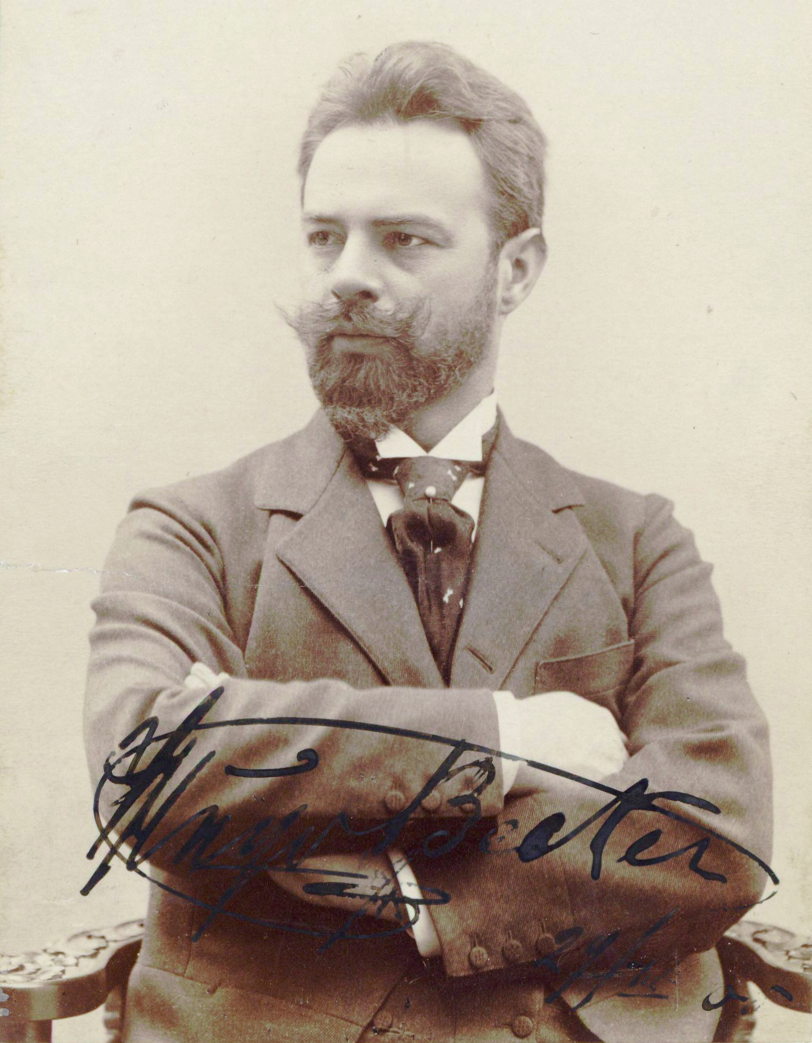 Photo of Hugo Becker, French composer, from the BNF website. Cropped with GIMP